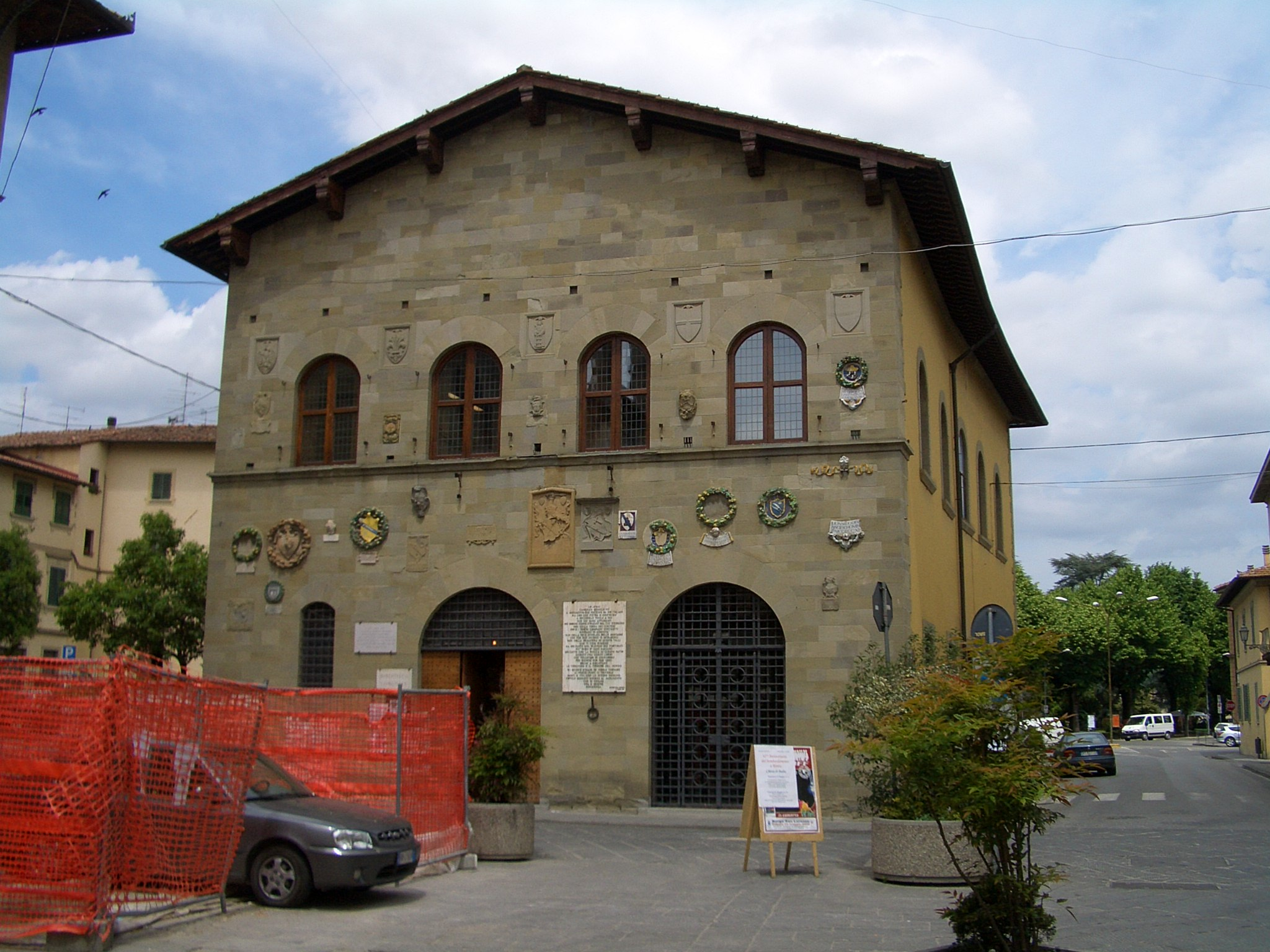 The public library in the town Borgo San Lorenzo, Tuscany